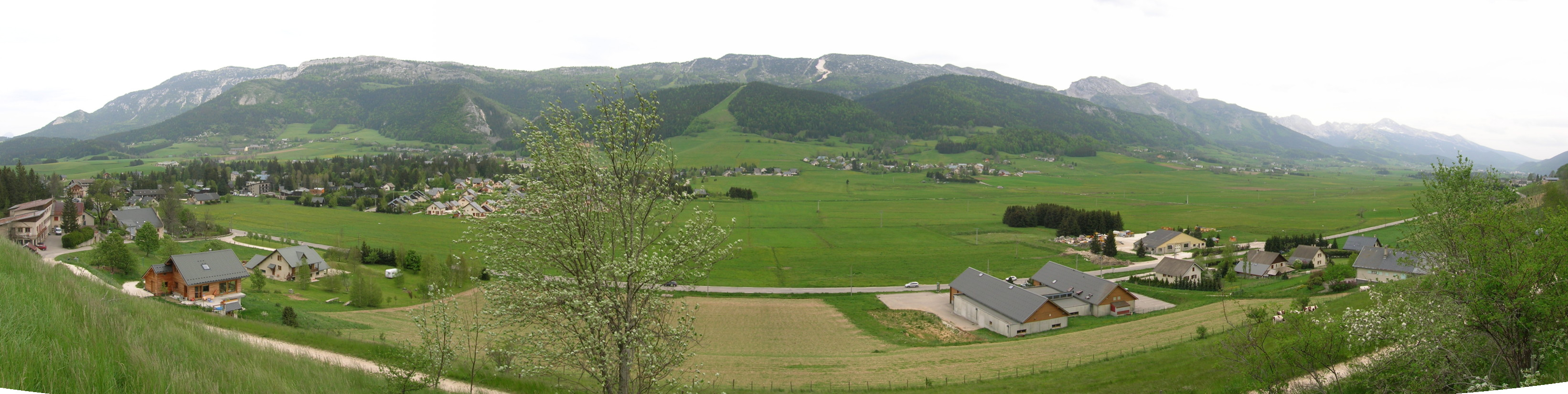 Main peaks of the Vercors Range and valley of Lans